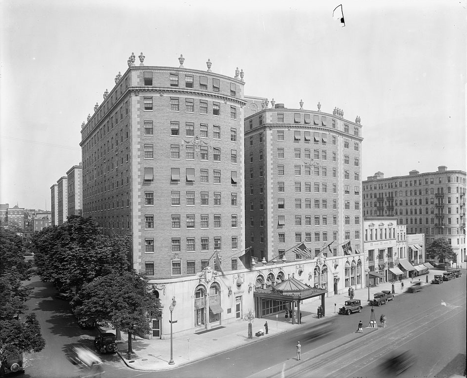 MAYFLOWER HOTEL. EXTERIOR